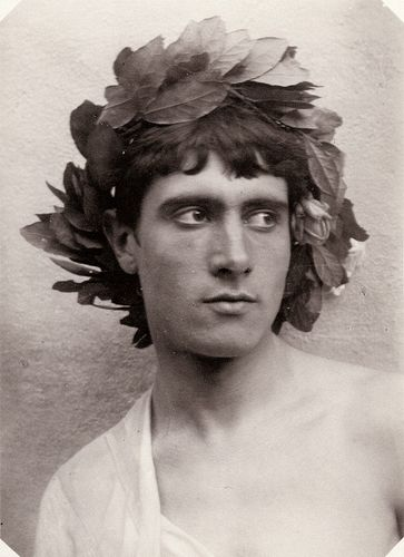 Wilhem von Gloeden (1856-1931). Boy with laurel wreath. Catalogue number: 269 of the "special size" catalogue. Also teh standard size version (cm 25.7 x 19.7) bears the same catalogue number.